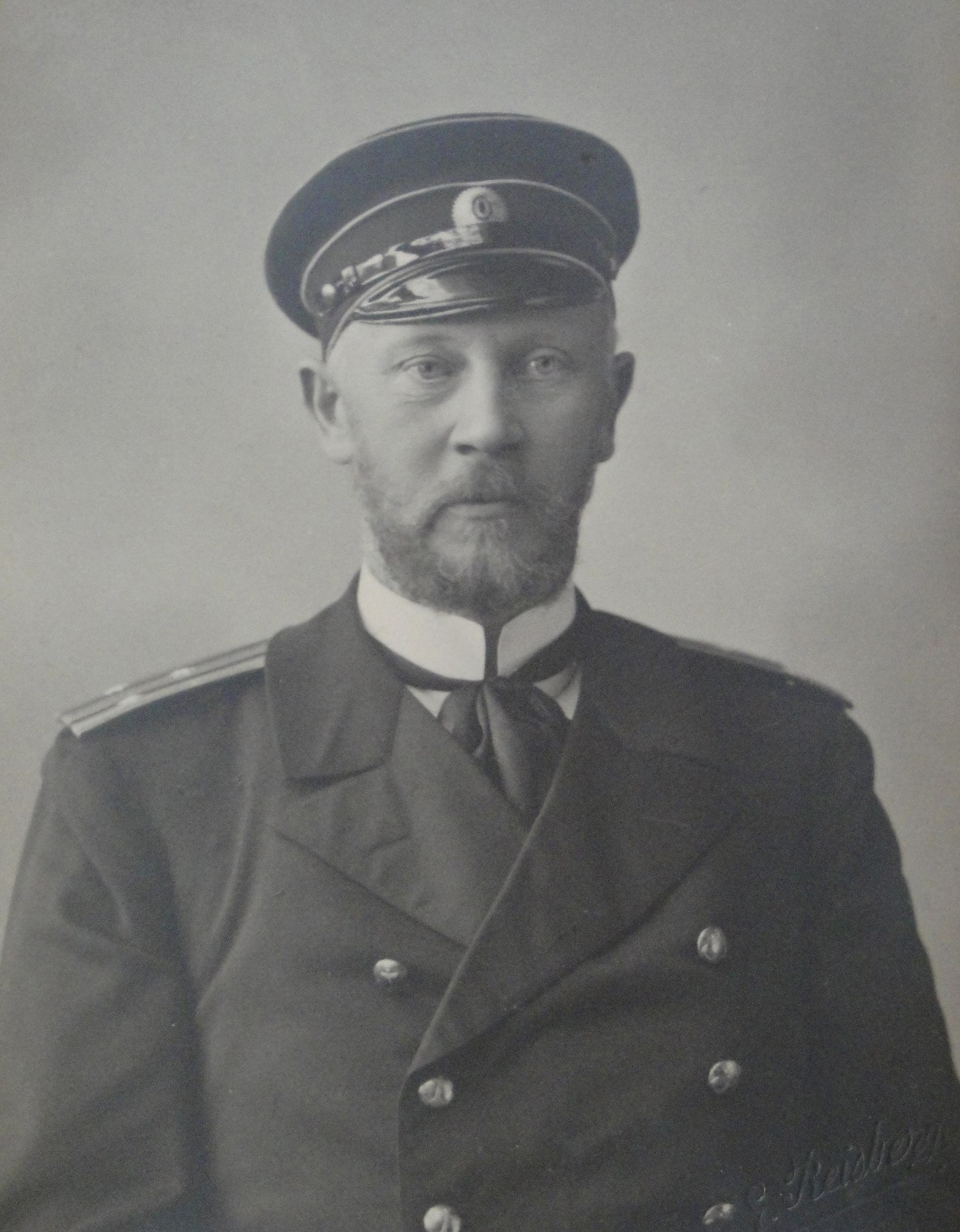 Russian Vice Admiral Vasili Nikolayevich Fersen. Photograph taken in Reval (today Tallin) in 1905.